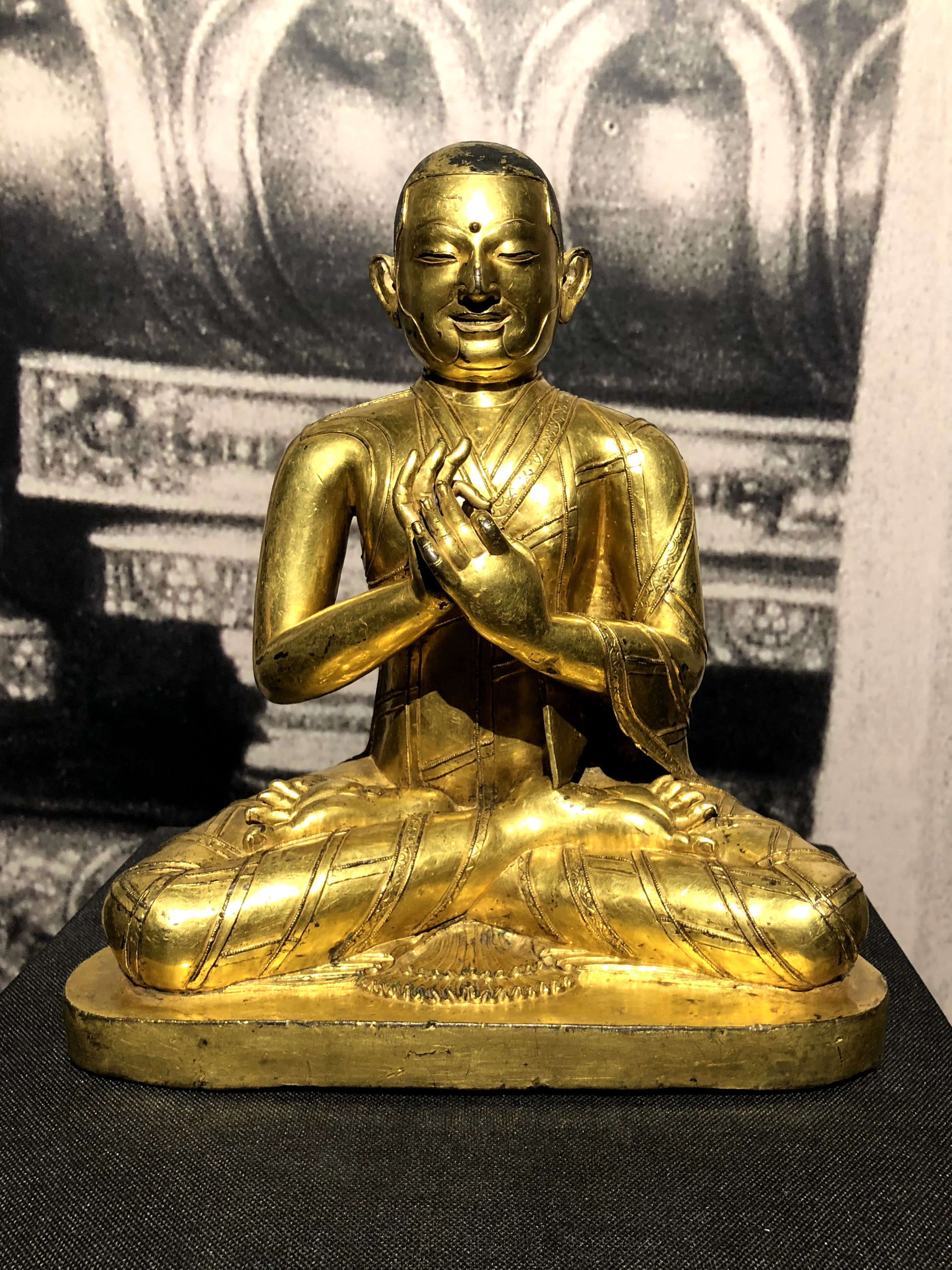 Gilt Bronze Phagmo Drupa statue. 14th century, Densatil Monastery.